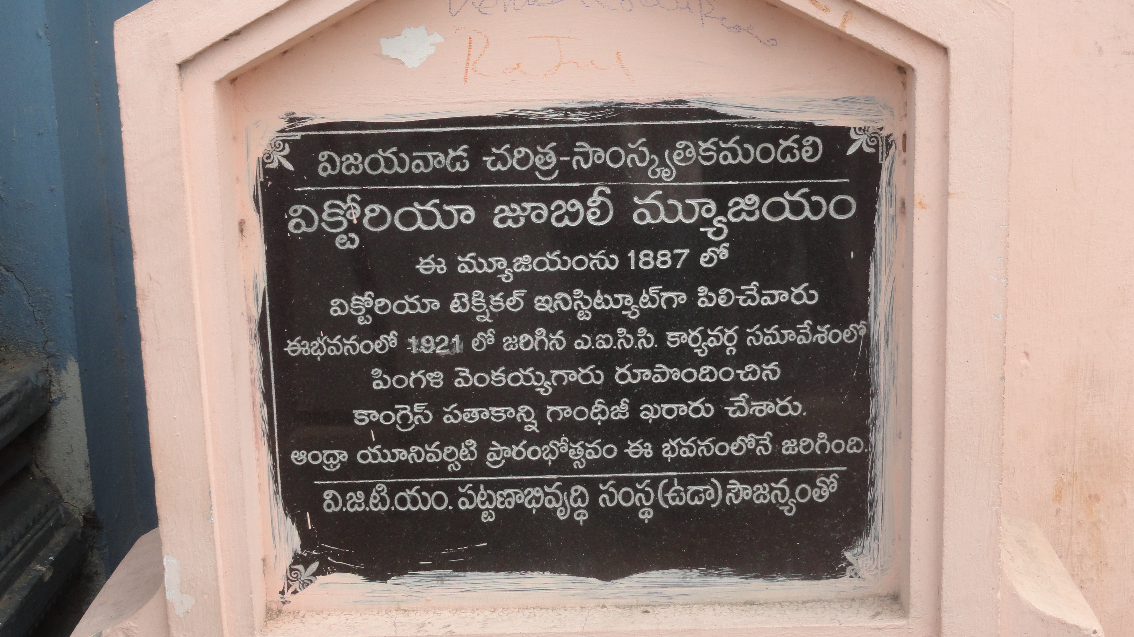 Andhra layola college